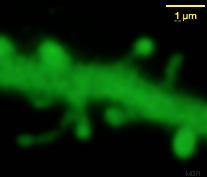 Spines can have different shape and sizes